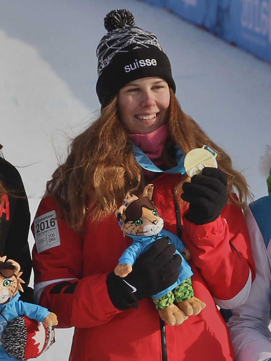 Swiss alpine skier Aline Danioth at the 2016 Youth Olympic Winter Games in Lillehammer